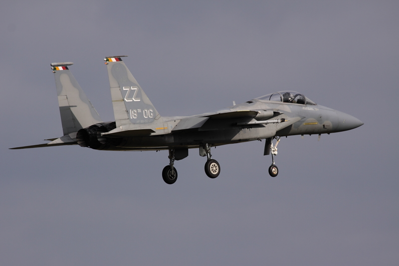 Kadena based F-15C Eagle lands at its homebase after a daily ACM training mission. This plane is designated as a wing commander bird.